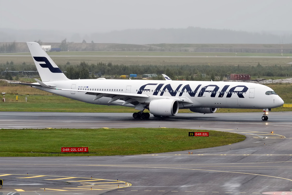 Finnair, OH-LWC, Airbus A350-941